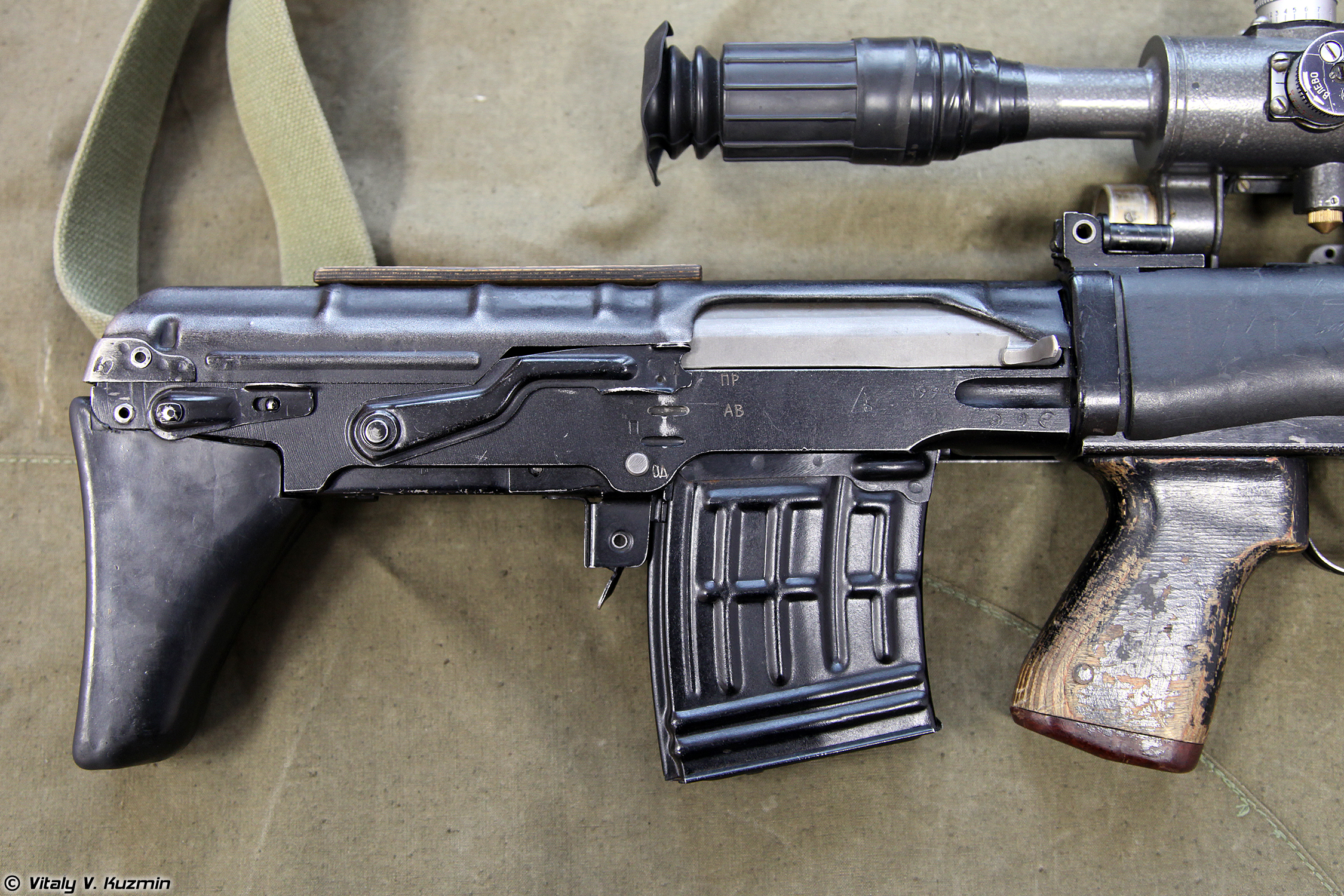 7.62x54 sniper rifle SVU-A